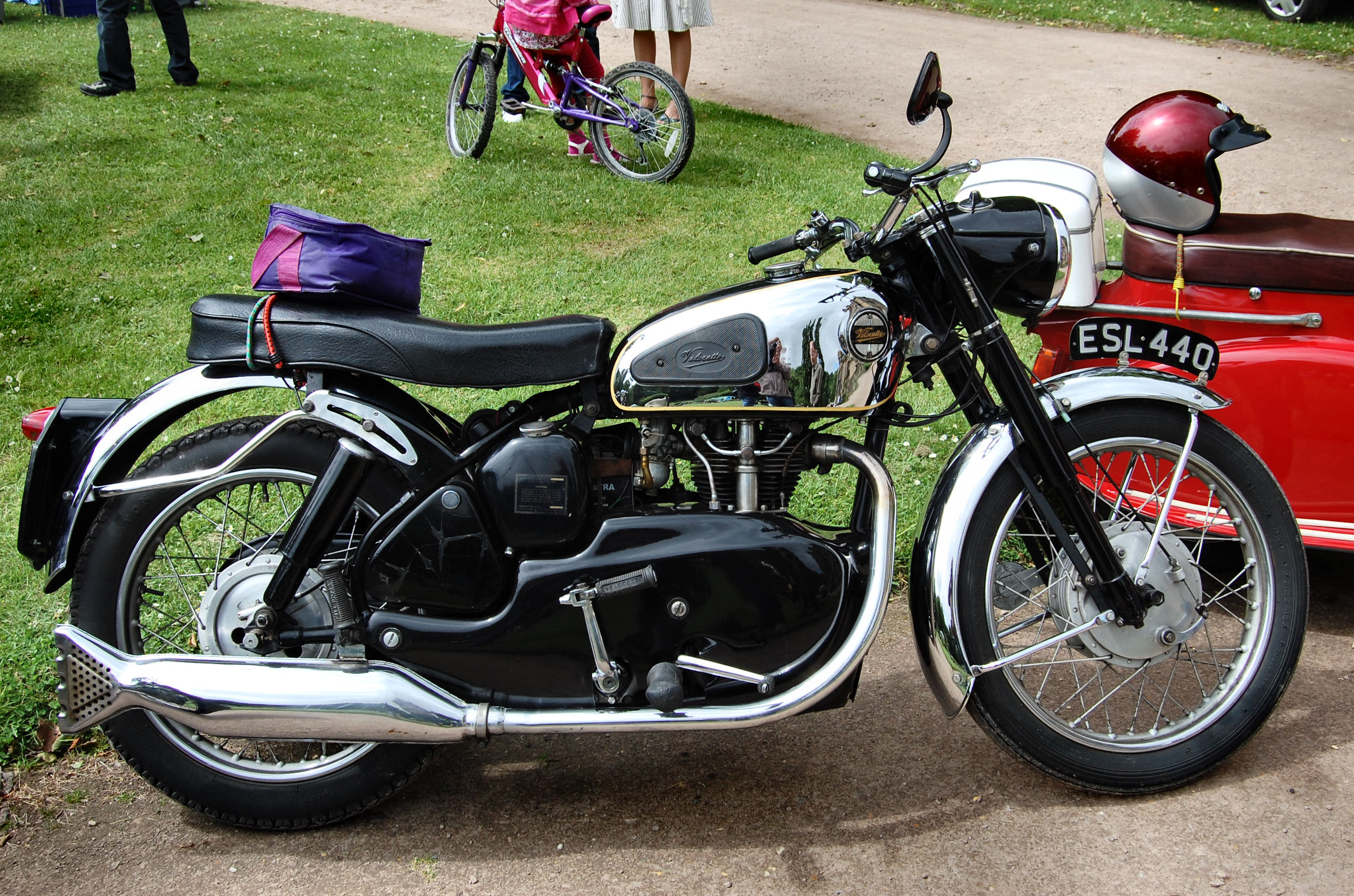 The Velocette Viper was a British motorcycle made by Velocette between 1955 and 1968. Built using traditional methods and materials, it struggled to compete against more modern machines, so from 1960 the designers added new glass fibre enclosure panels, making the Viper one of the first enclosed production motorcycles.[1] Development Introduced in October 1955, the single-cylinder Viper was developed from the 349cc Velocette MAC. Designed by Charles Udall, the Viper's 349cc engine had a bi-metal cylinder with a cast iron liner, high compression piston and a light alloy cylinder head. Using the same bottom end as its sister bike the 500cc Velocette Venom, the Viper had a lot of chrome plating and was offered in a choice of black or "willow green" paintwork. The Viper was also ahead of its time in being one of the first to have glass fibre enclosure panels from 1962. These panels proved unpopular with the traditional buyers of Velocette singles,[1] as they extended from the front of the engine, level with the top of the crankcase, to the rear pillion footrests.[2]